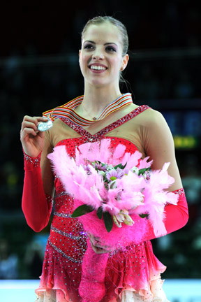 Carolina Kostner (2nd) during the ladies medals ceremony at the 2008 World Championships.